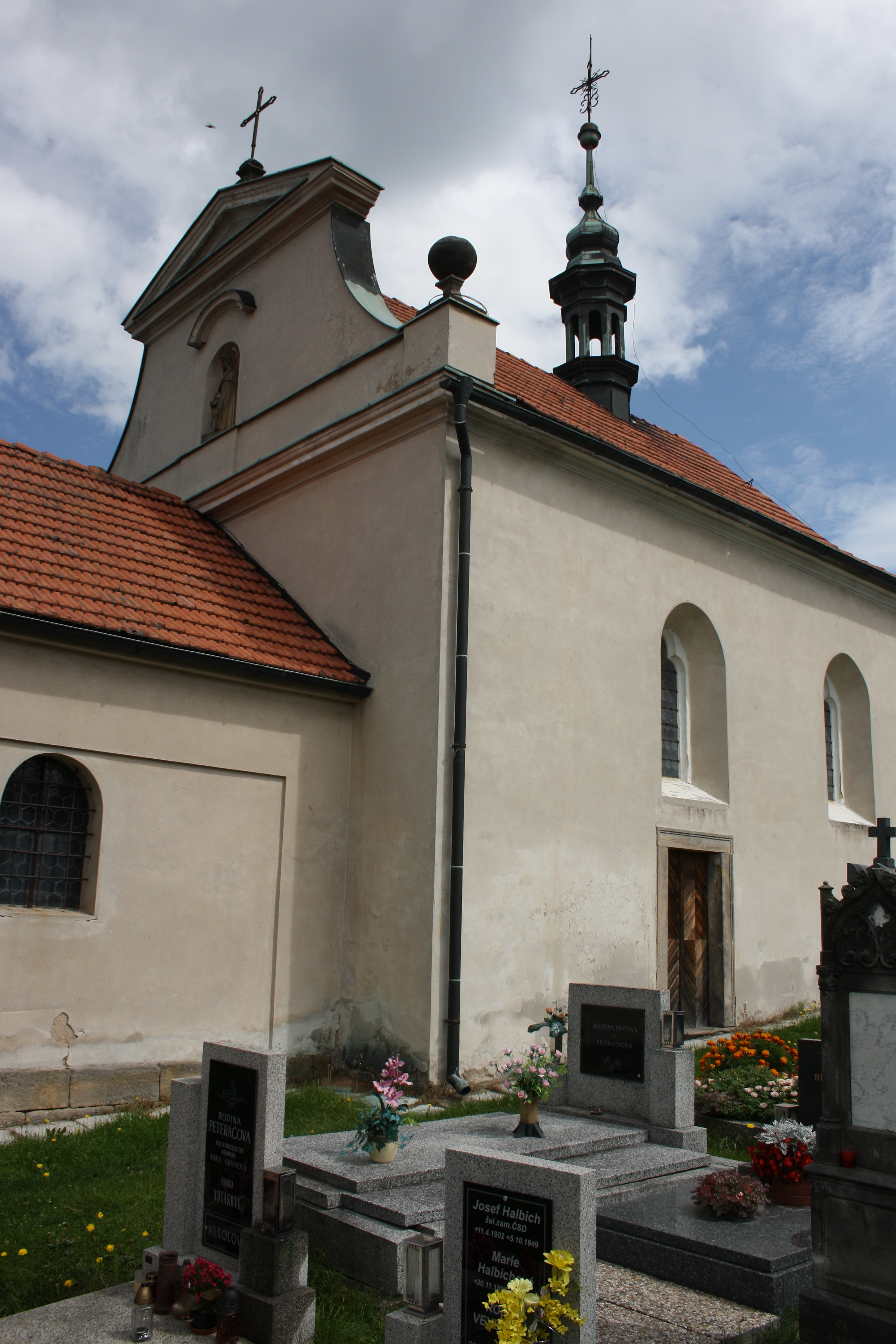 Church of the Finding of the True Cross, Nepřívěc, Bohemia.